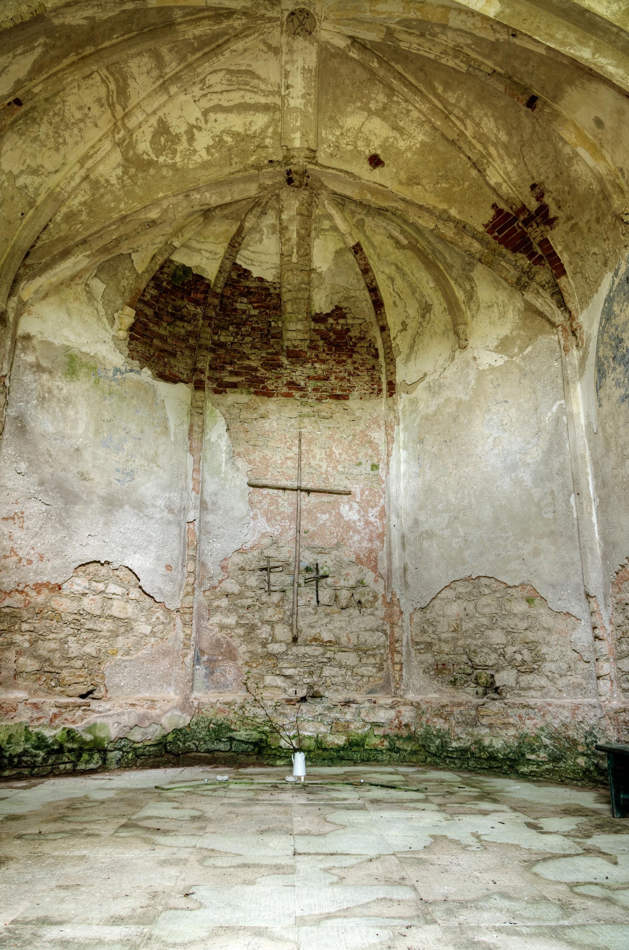 Inside the Grünewaldt's chapel